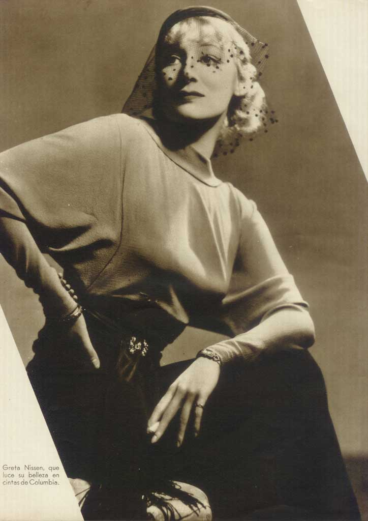 Publicity photo of Greta Nissen for Argentinean Magazine. (Printed in USA)